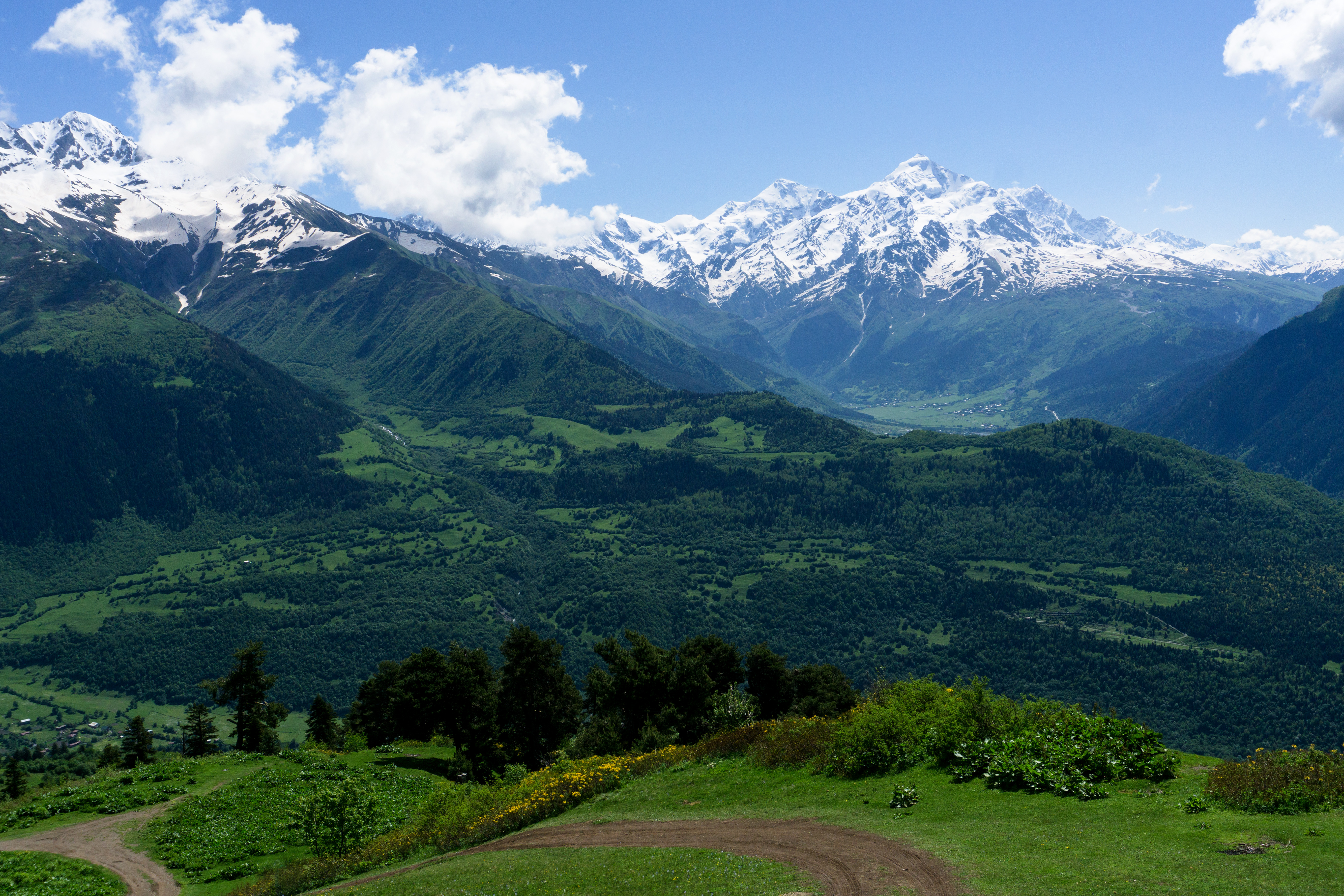 Zemo Svaneti, June, 2018